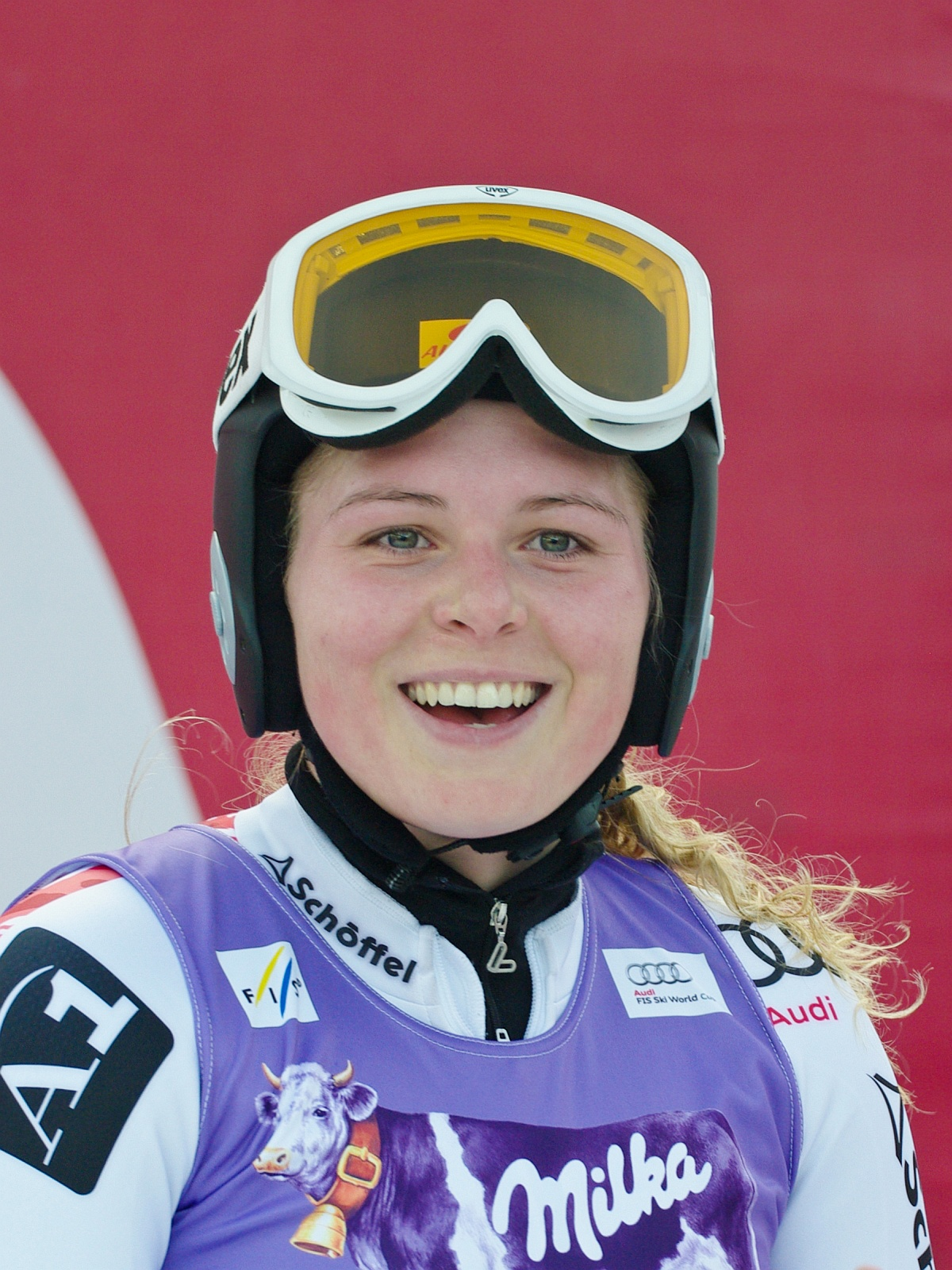 Austrian alpine skier Mariella Voglreiter after the second Downhill training in Altenmarkt-Zauchensee (Austria) on 7 January 2011.